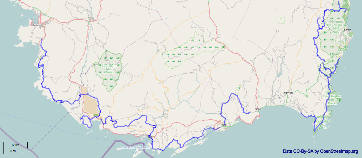 Map of Lycian way